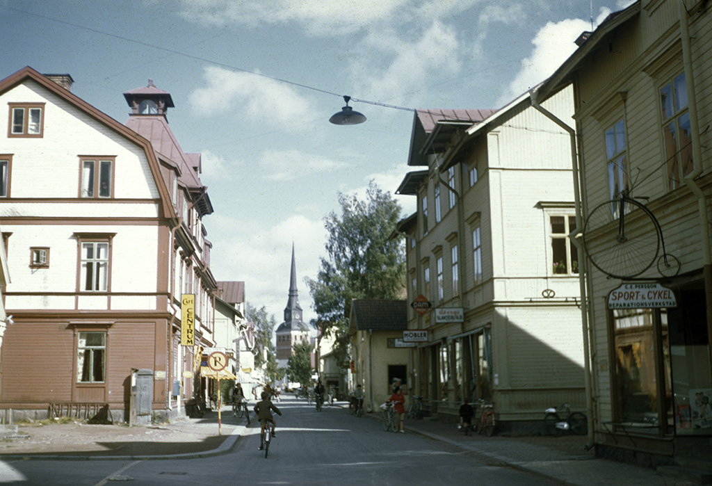 People and shops in Kyrkogatan (Church street). Människor och affärer på Kyrkogatan. Parish (socken): Mora Province (landskap): Dalarna Municipality (kommun): Mora County (län): Dalarna Photograph by: Fredrik Bruno Date: 1947 Format: Colour slide See a recent photo of the same view: Persistent URL: Read more about the photo database (in english)